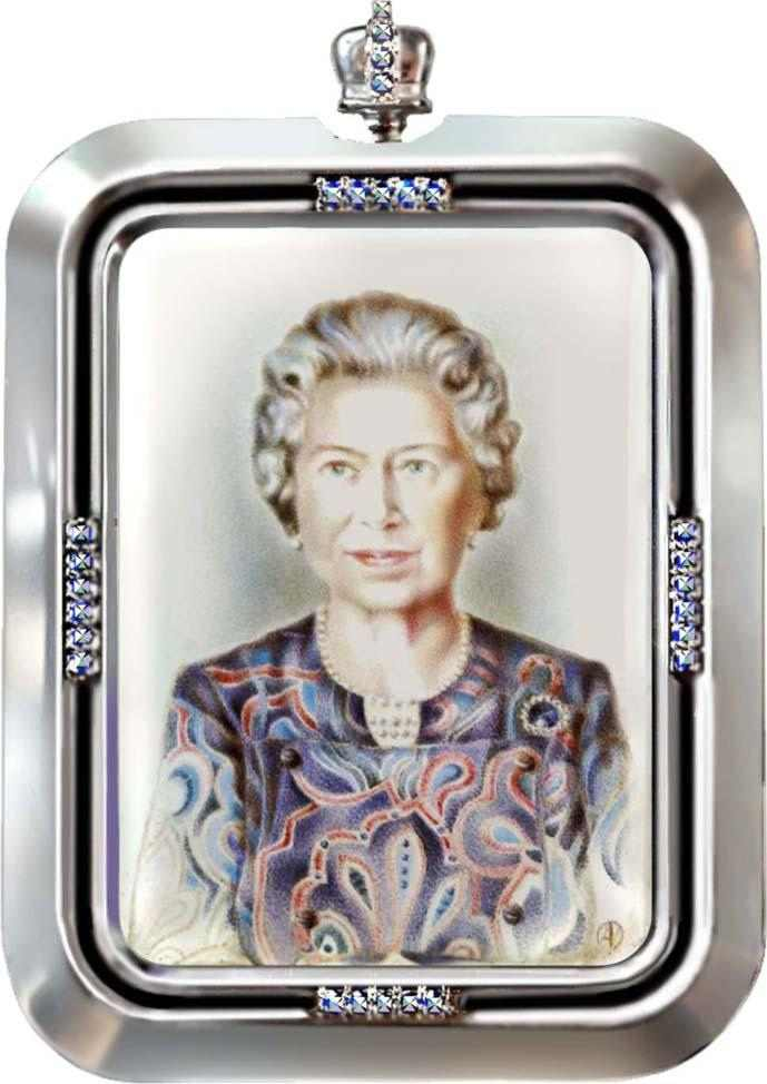 H. M. Queen Elizabeth II. 2011, Enamel painting, silver, diamonds